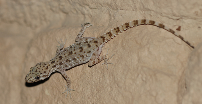 Cyrtopodion scabrum in Dezfull, Khoozestan Province, Iran